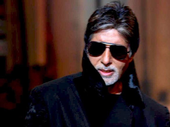 Amitabh Bachchan at HDIL India Couture Week 2010 walking the ramp sporting designs by designers Karan Johar and Varun Bahl.